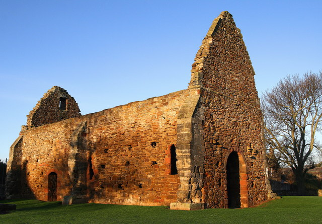 St Martin's Church , Haddington St Martin's Church was originally a chapel belonging to St Mary's Nunnery (located about a mile to the east). It was built in the early 12th century, and was altered in the 13th century when a structure was vaulted and buttresses added. It was probably used by both the nuns and the people of Haddington. In the 17th century, it became a Protestant place of worship but eventually fell into decay. Although there is no visible signs, it is thought that the area around the church was used for burials until the 19th century.